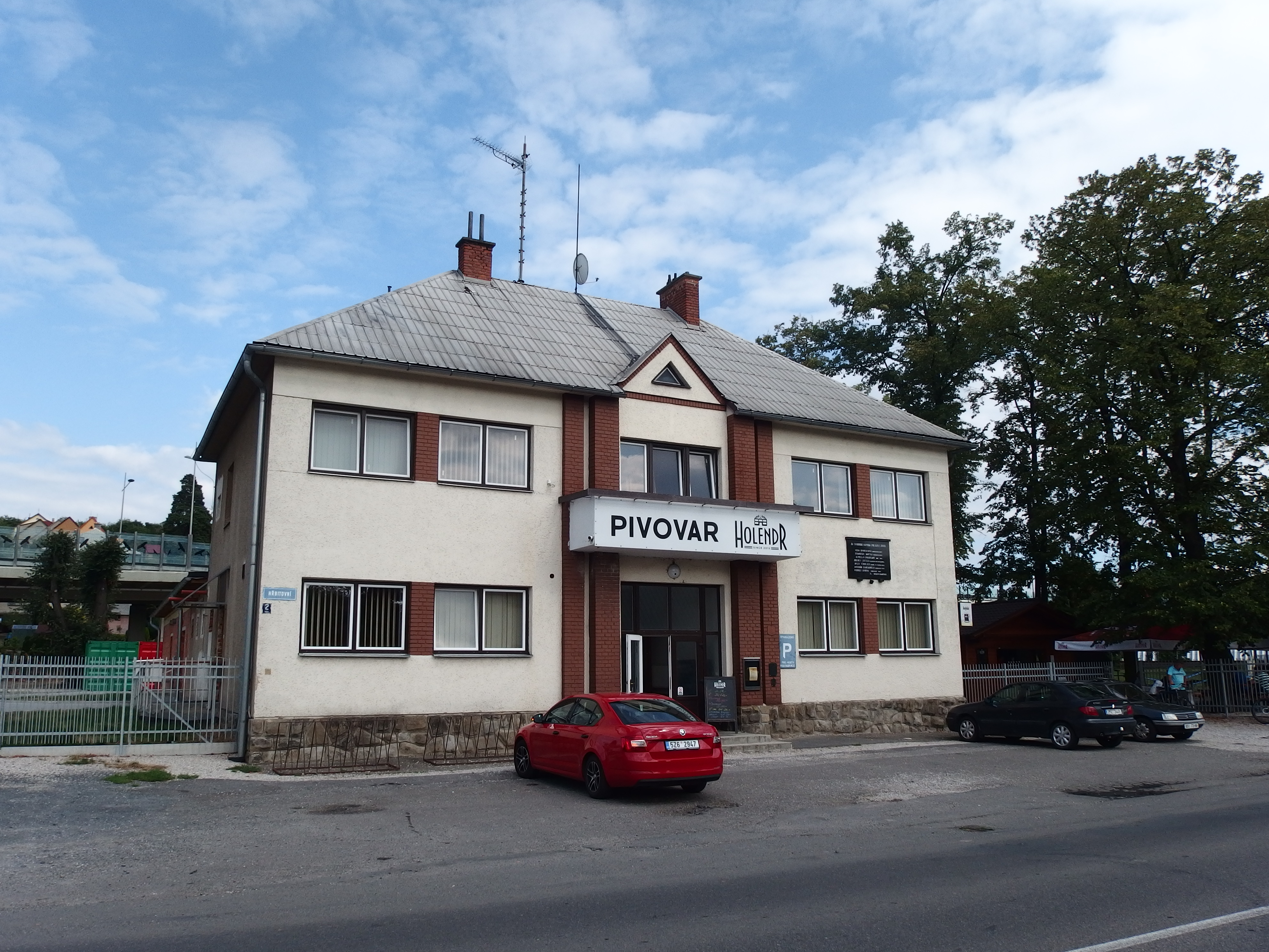 Valašské Meziříčí, Vsetín District, Czech Republic, part Krásno nad Bečvou.